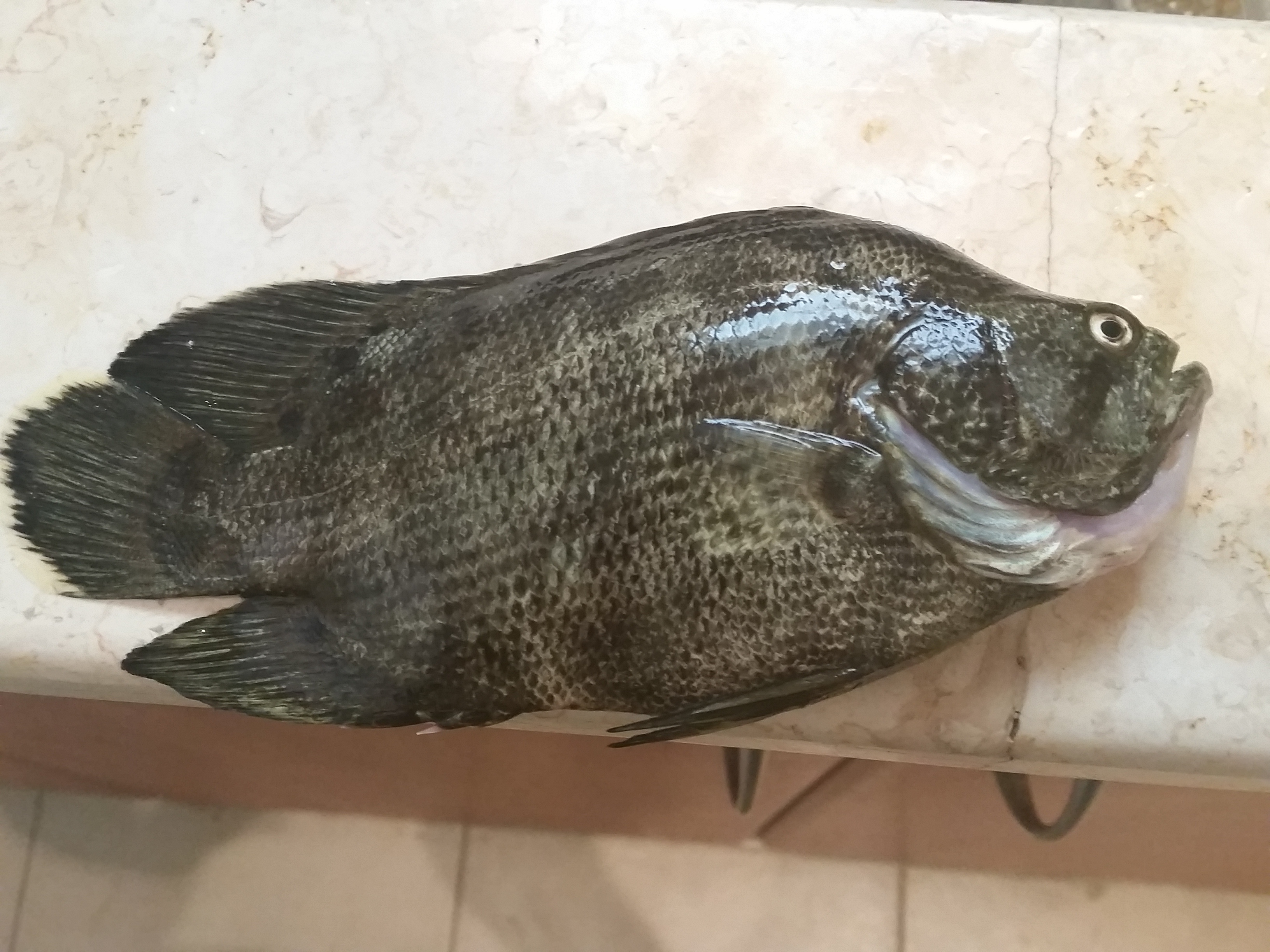 atlantic tripletale fish picture